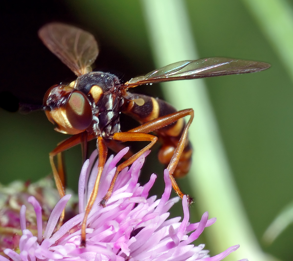 This image shows an about 0.35 inch (9 mm) large Yellow-banded Conops (Conops quadrifasciatus). Thanks to Luis Fernández García and Wofl for identifying this animal.